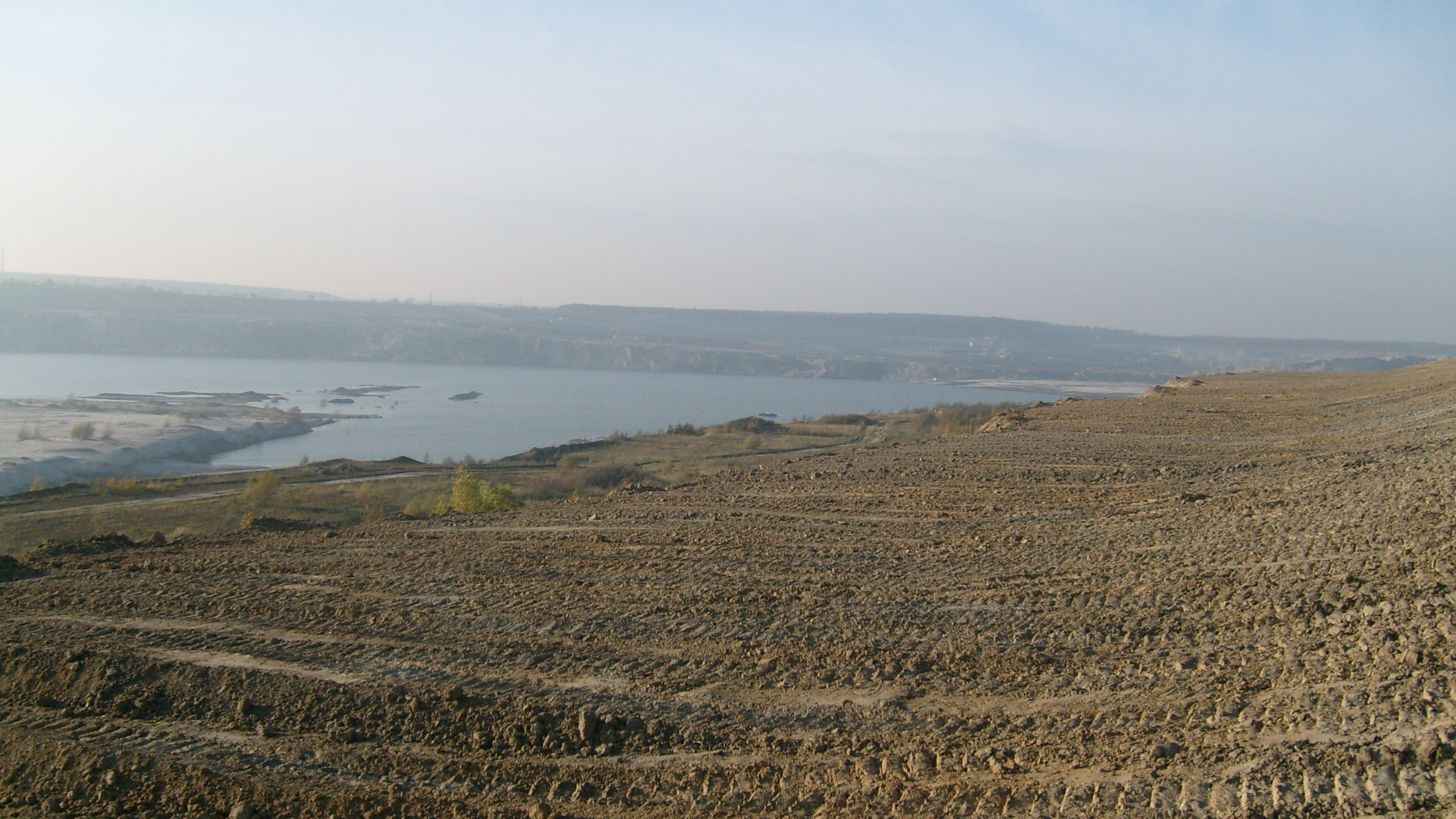 Open pit mining in Lubstów